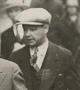 Undated wire service photograph of Johnny Broderick (1894-1966) making an arrest in 1927.